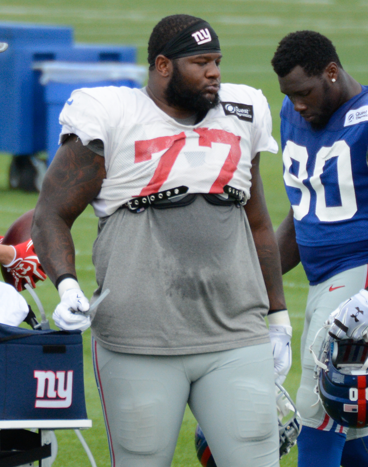 New York Giants training camp